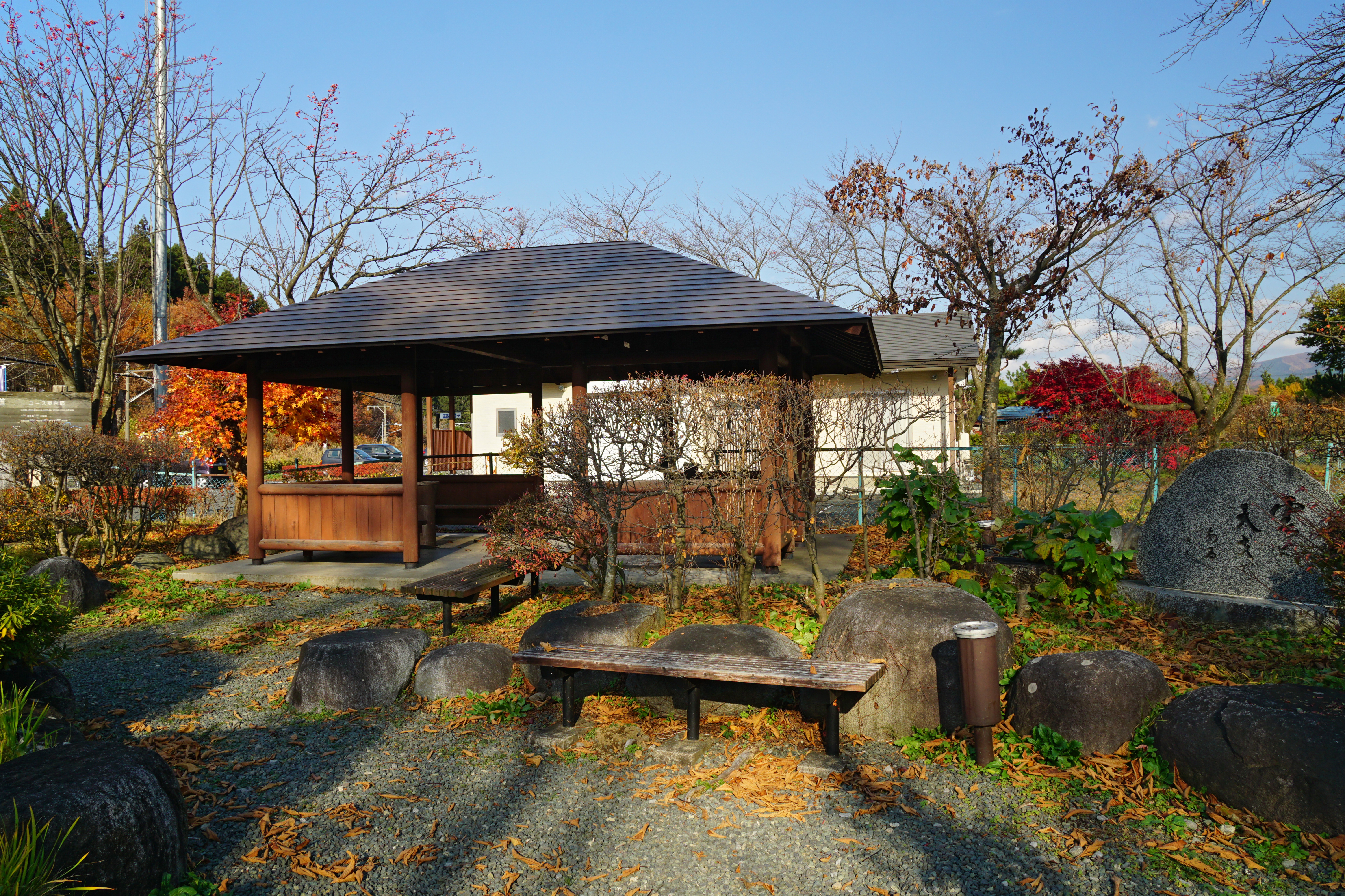 Shibutami Station in Morioka, Iwate prefecture, Japan